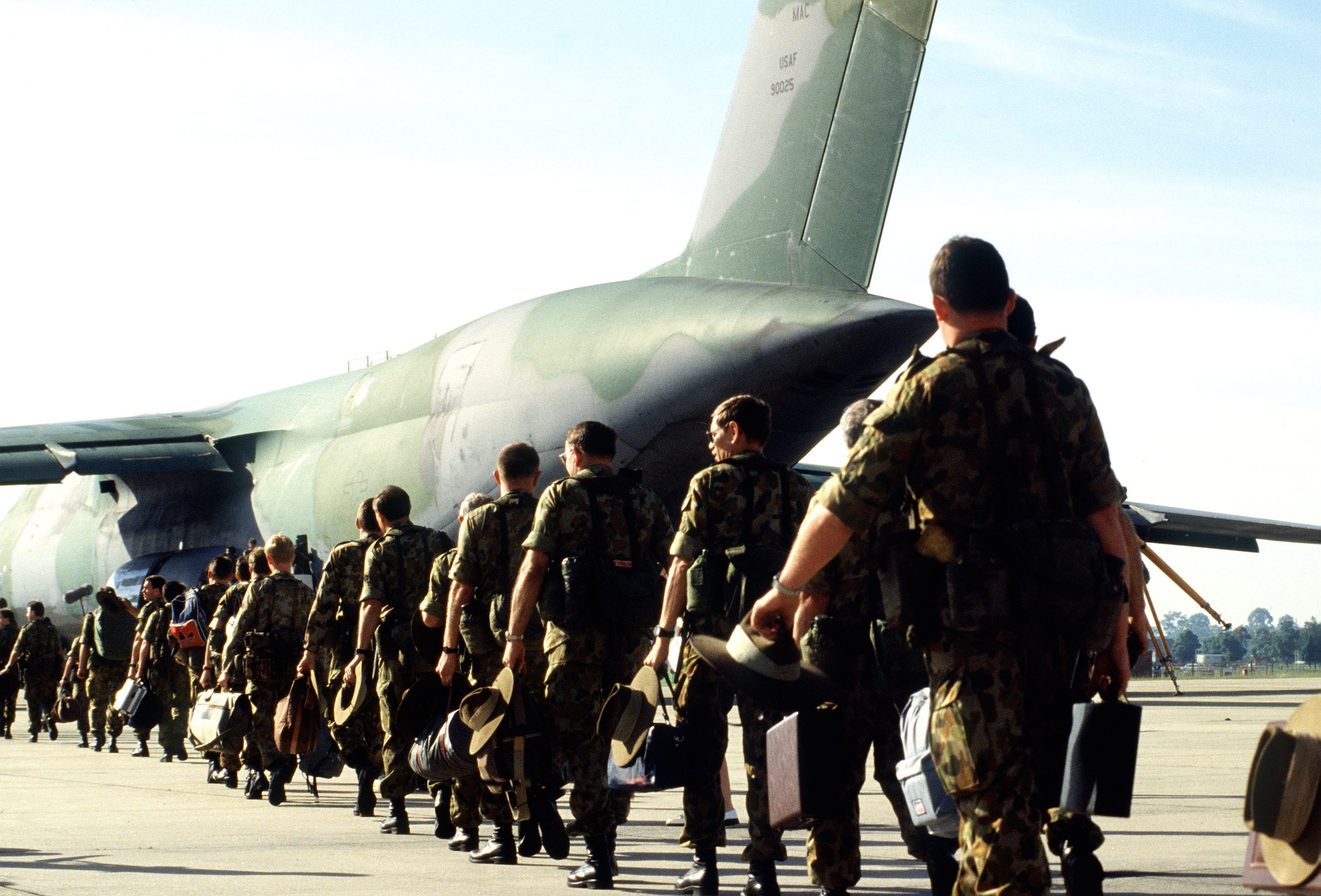 Royal Australian Engineers assigned to the United Nations Transition Assistance Group (UNTAG) board a US Air Force C-5A Galaxy aircraft during operation ELECTION DISTRICT. UNTAG will perform peacekeeping duties and monitor the November 1989 elections and independence of Namibia. Location: RAAF RICHMOND